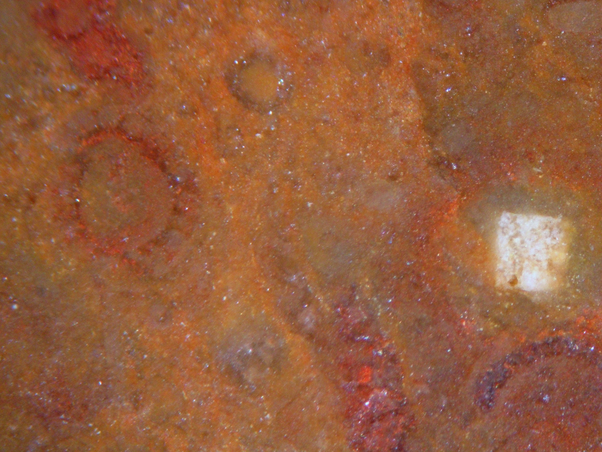 And this fossils are silicified remains of alguae, in a very fine sediment.